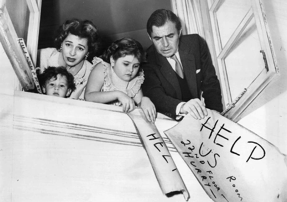 Photo of James Mason and family from the 1957 television program Panic!. This was a "thriller" type program and aired 18 episodes from 1957 to 1958. From left: son Morgan and wife Pamela, daughter Portland and Mason.